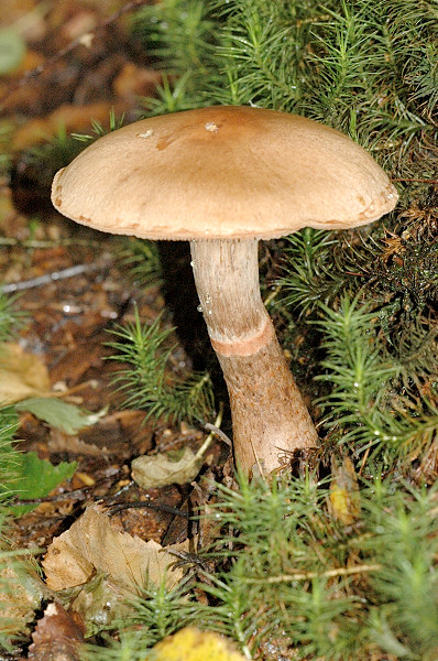 Cortinarius caninus from Commanster, Belgium. If you think this is a different taxon, please contact James Lindsey.